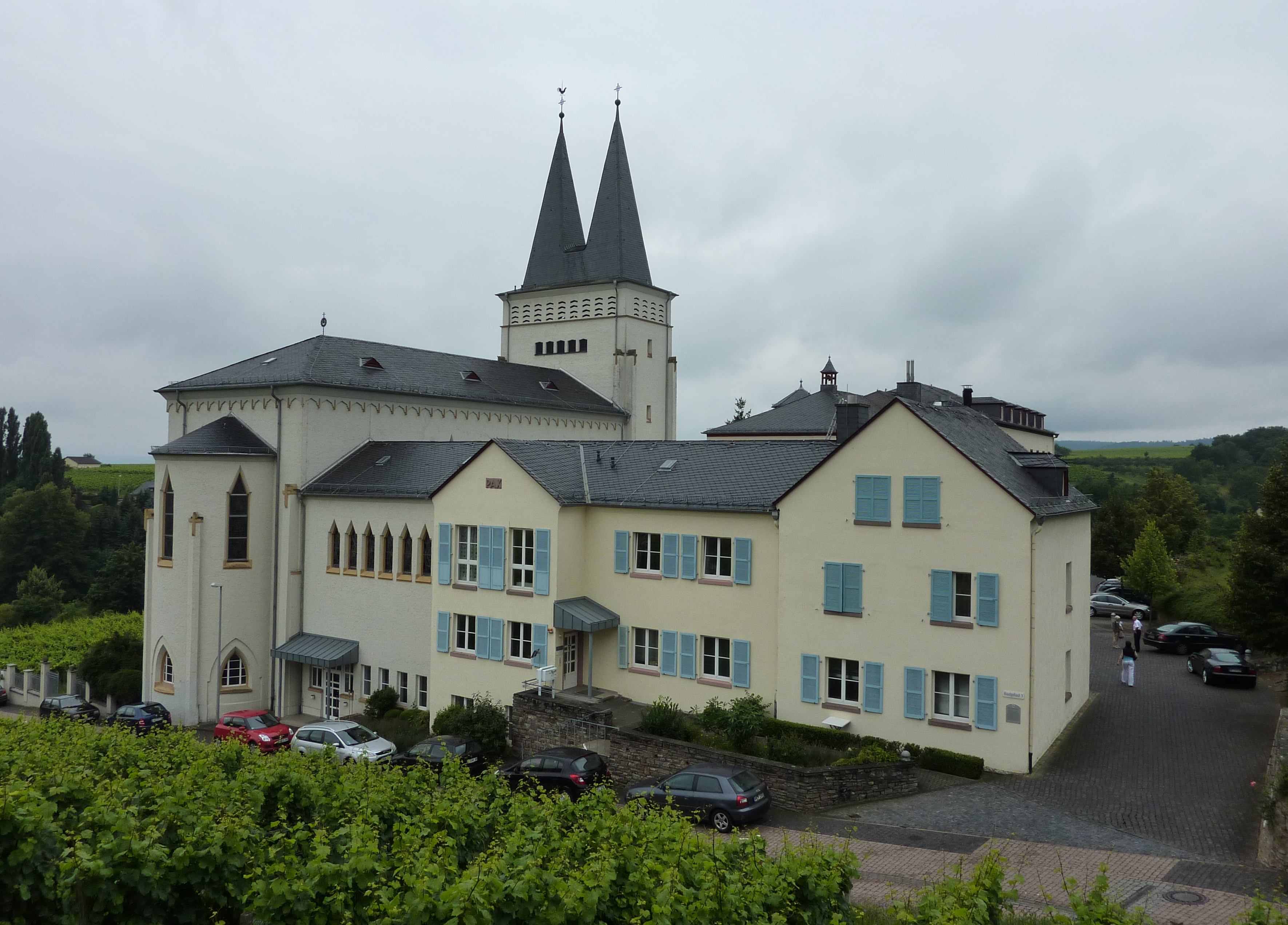 New Monasterium Johannisberg (Hotel)